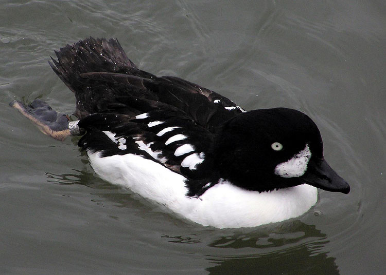 Barrow’s Goldeneye (Bucephala islandica) (male) at Slimbridge Wildfowl and Wetlands Centre, Gloucestershire, England.